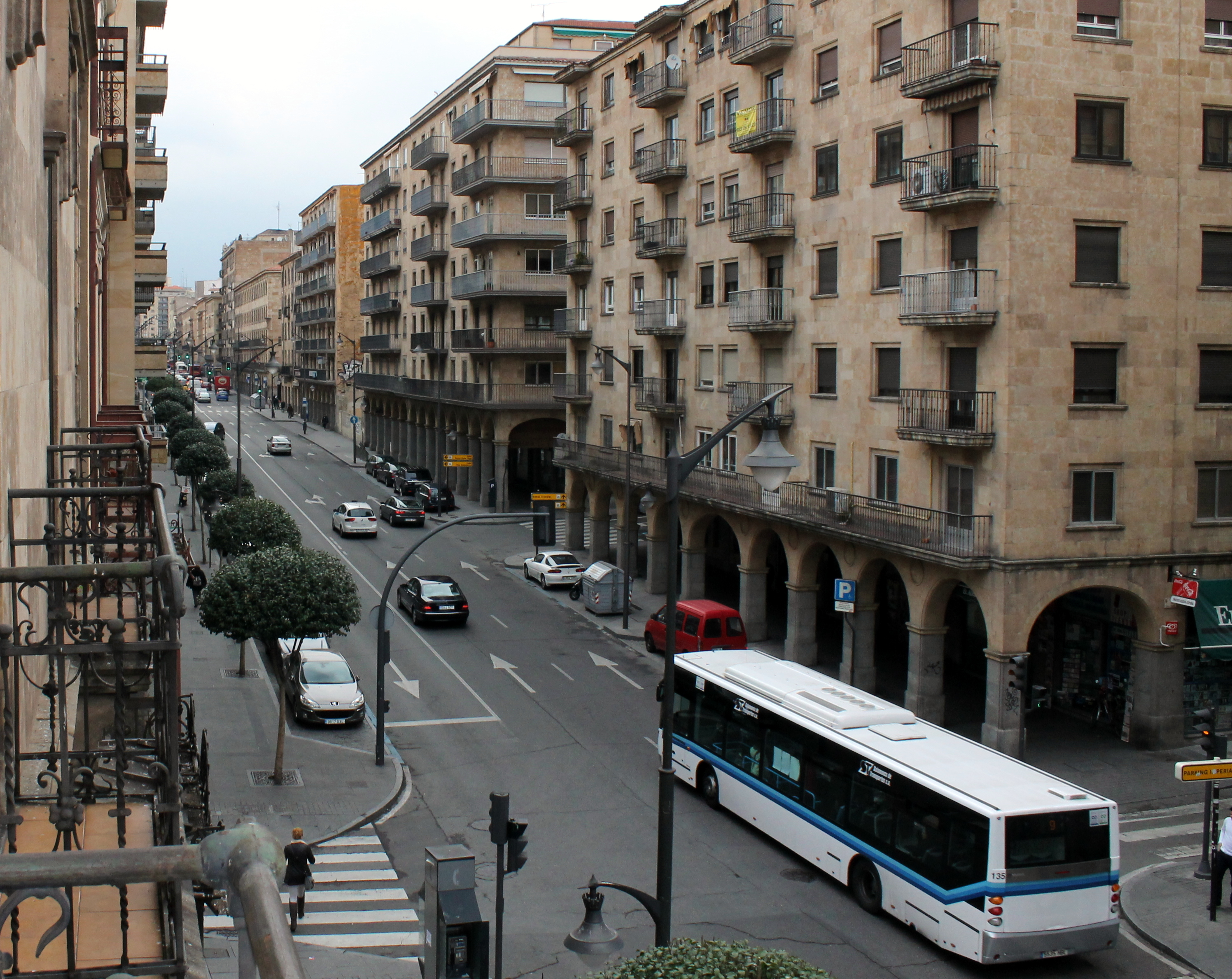 The Gran Vía of Salamanca, as seen from a building in the intersection with the Calle San Justo.